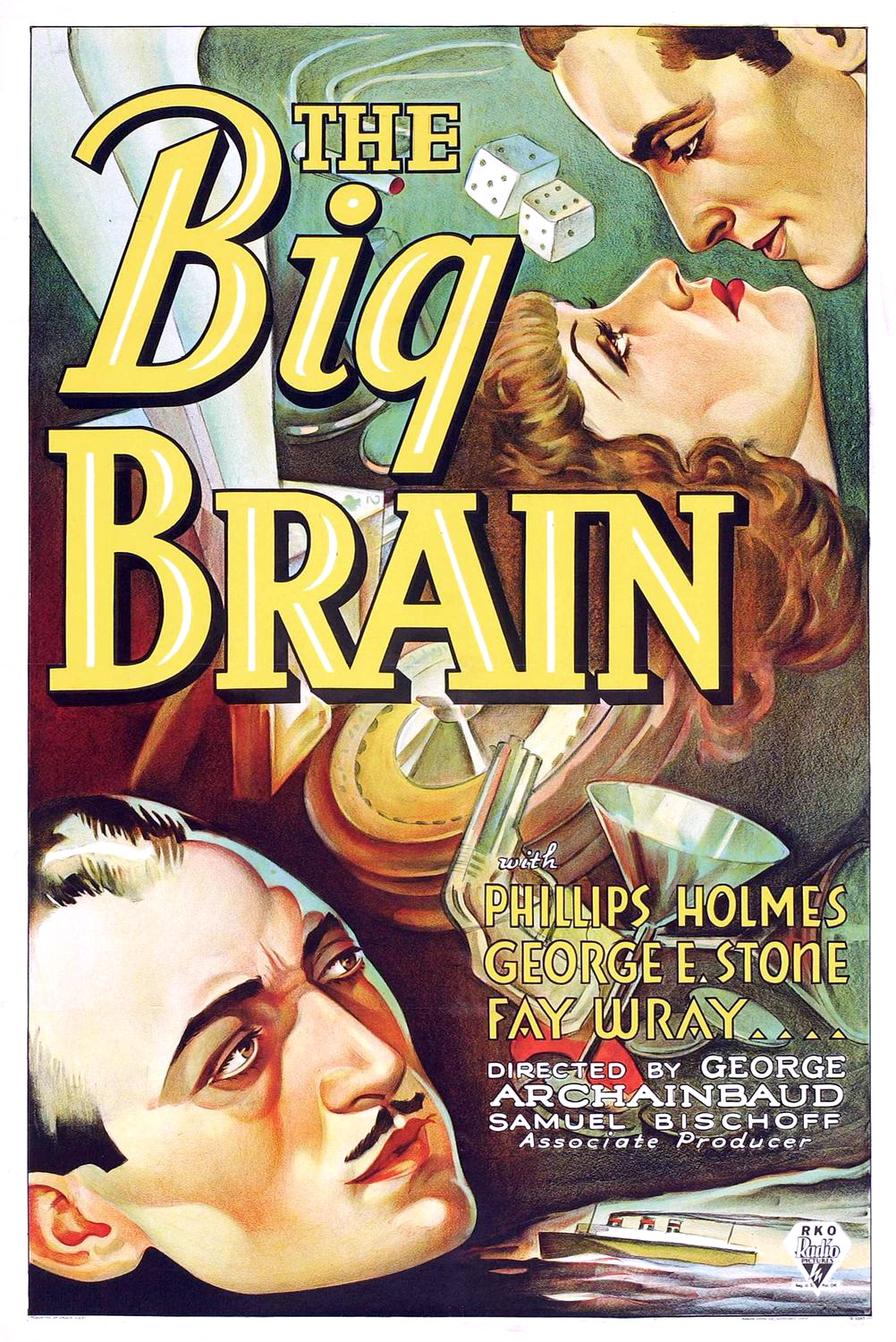 Poster for the 1933 film The Big Brain. The print at bottom isn't able to be clearly read when enlarged or zoomed. Since it's not known if this is a copyright notice, a search for renewal was done in motion pictures and in artwork for the years 1960 and 1961. There were no listings for the titleThe Big Brain in motion pictures or for RKO Pictures in artwork. There's no evidence that copyright is still claimed on the material.